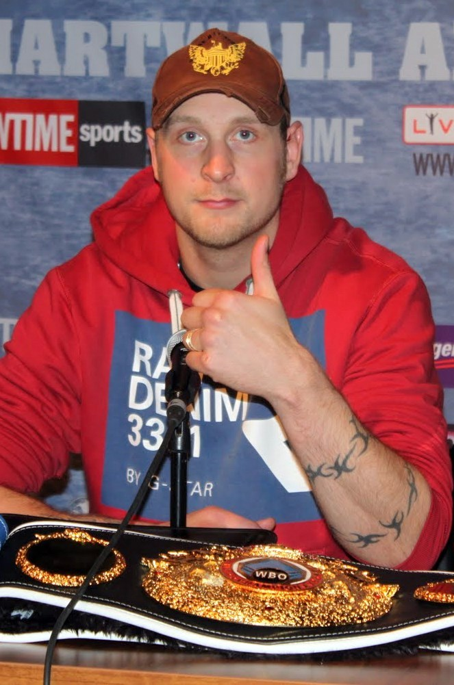 A Finnish boxer, Robert Helenius.